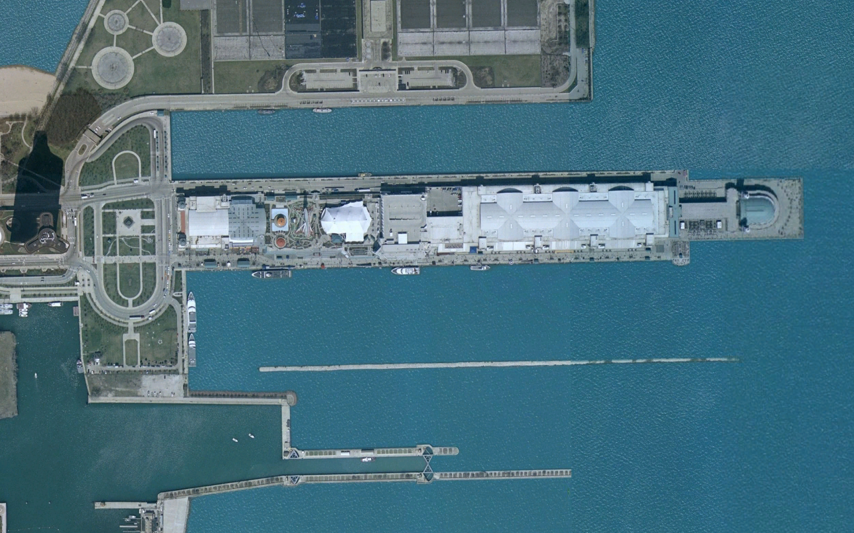 Navy Pier, Chicago, Illinois, USA